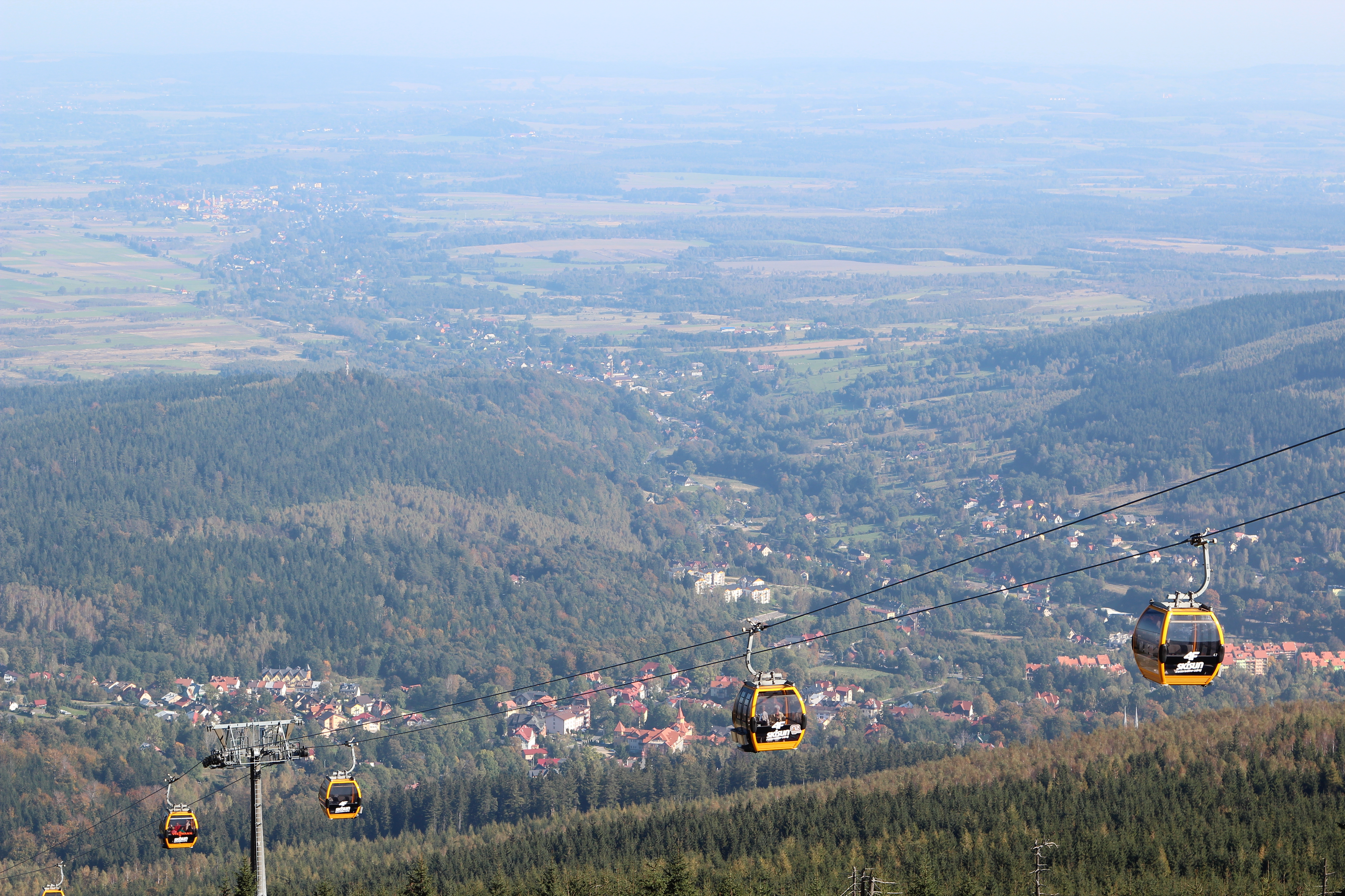 Cableway to Stóg Izerski